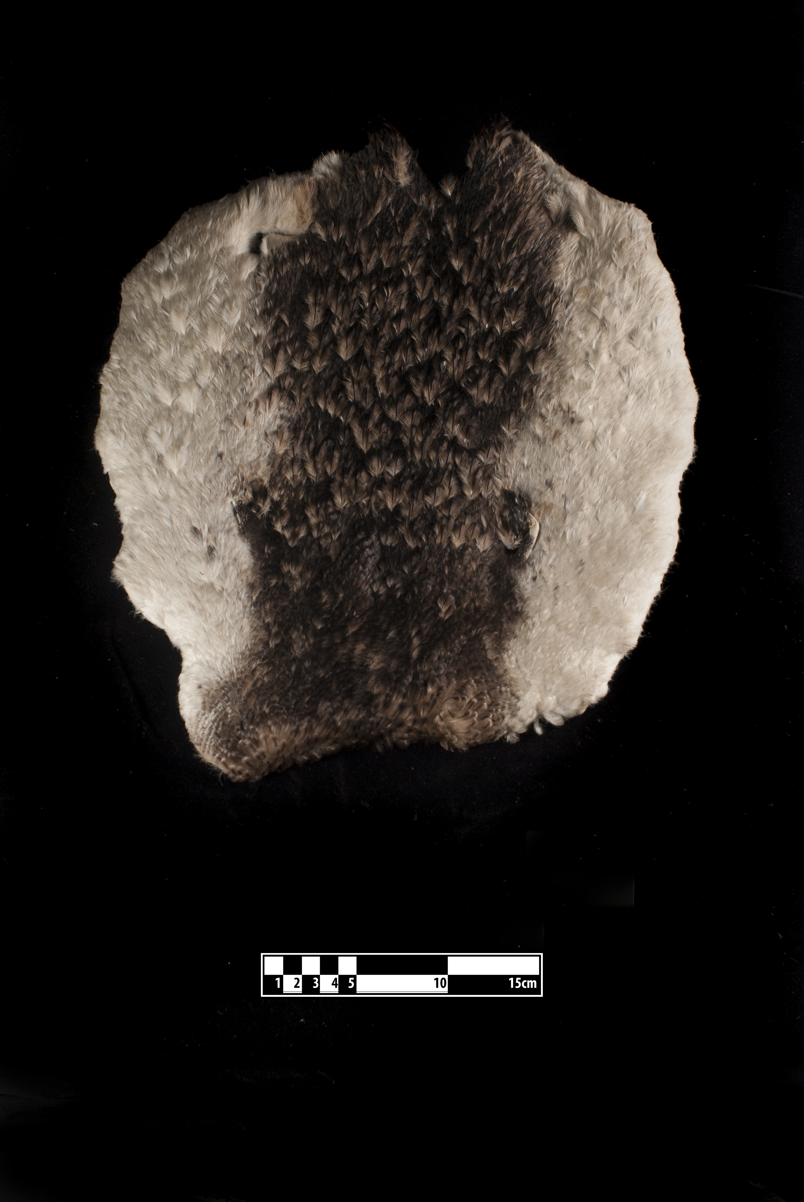 Penguin. Spheniscus magellanicus Taxidermy of a penguin skin on display at the Museum of Veterinary Anatomy FMVZ USP. This file was published as the result of a partnership between the Museum of Veterinary Anatomy FMVZ USP, the RIDC NeuroMat and the Wikimedia Community User Group Brasil. This GLAM project is reported. Photography: Museum of Veterinary Anatomy FMVZ USP. Author: Wagner Souza e Silva.